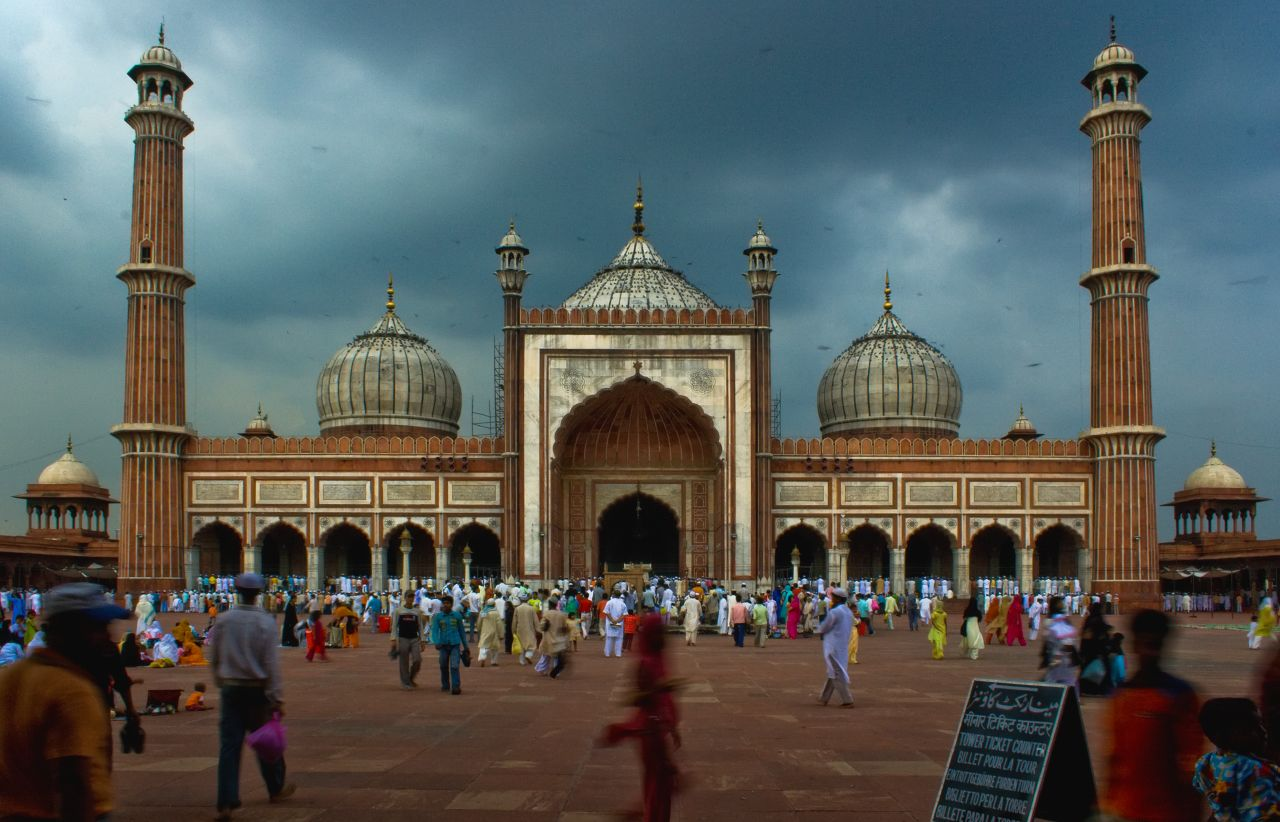 The Masjid-i-Jahan Numa (Hindi: मस्जिद-ए-जहां नुमा, Urdu: مسجد جھان نمہ), commonly known as Jama Masjid of Delhi...